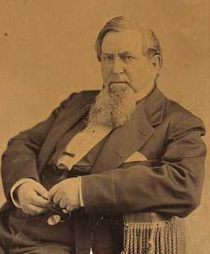 George W. Cass, circa 1875